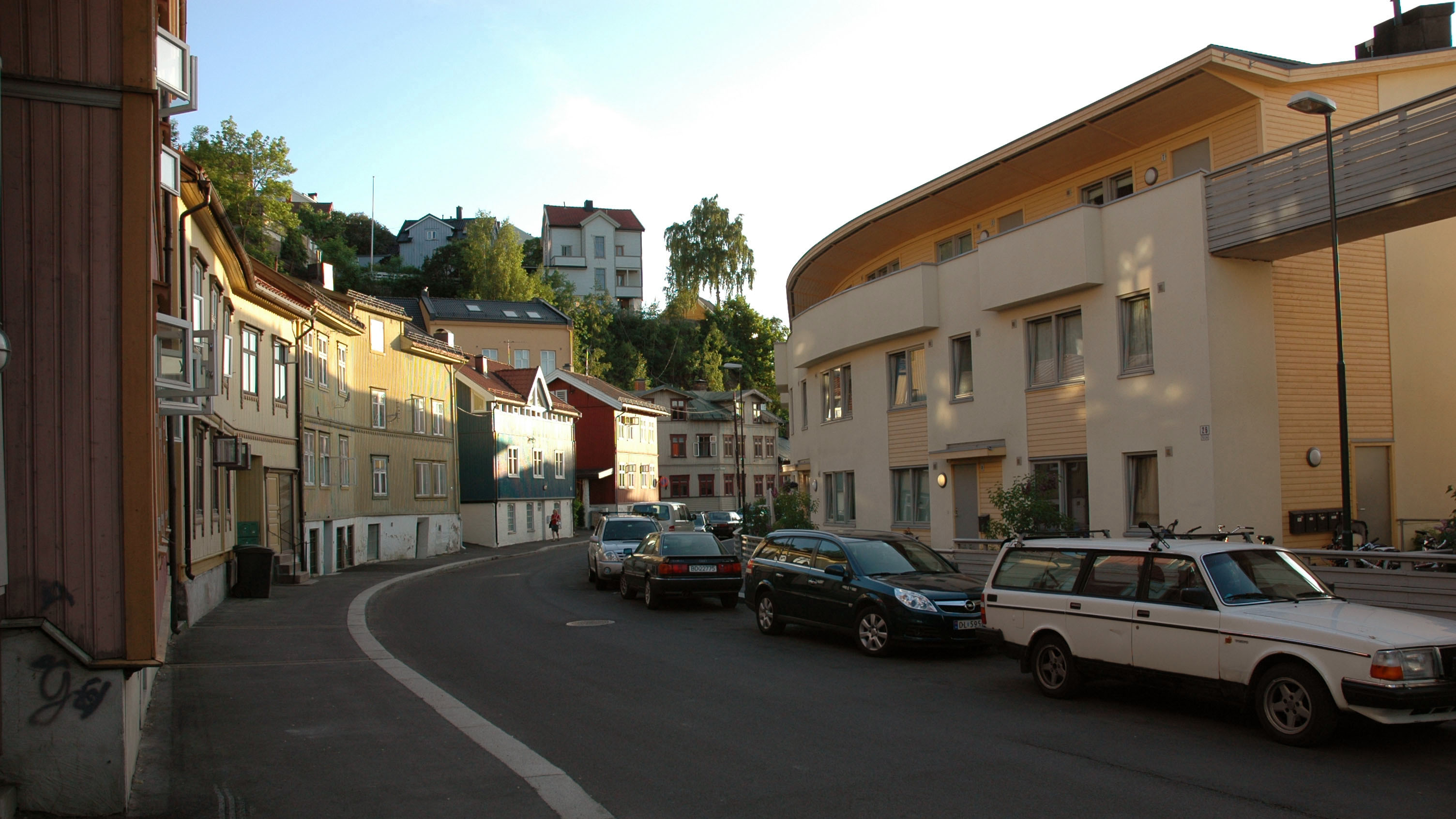 Baglerbyen, Oslo, Norway